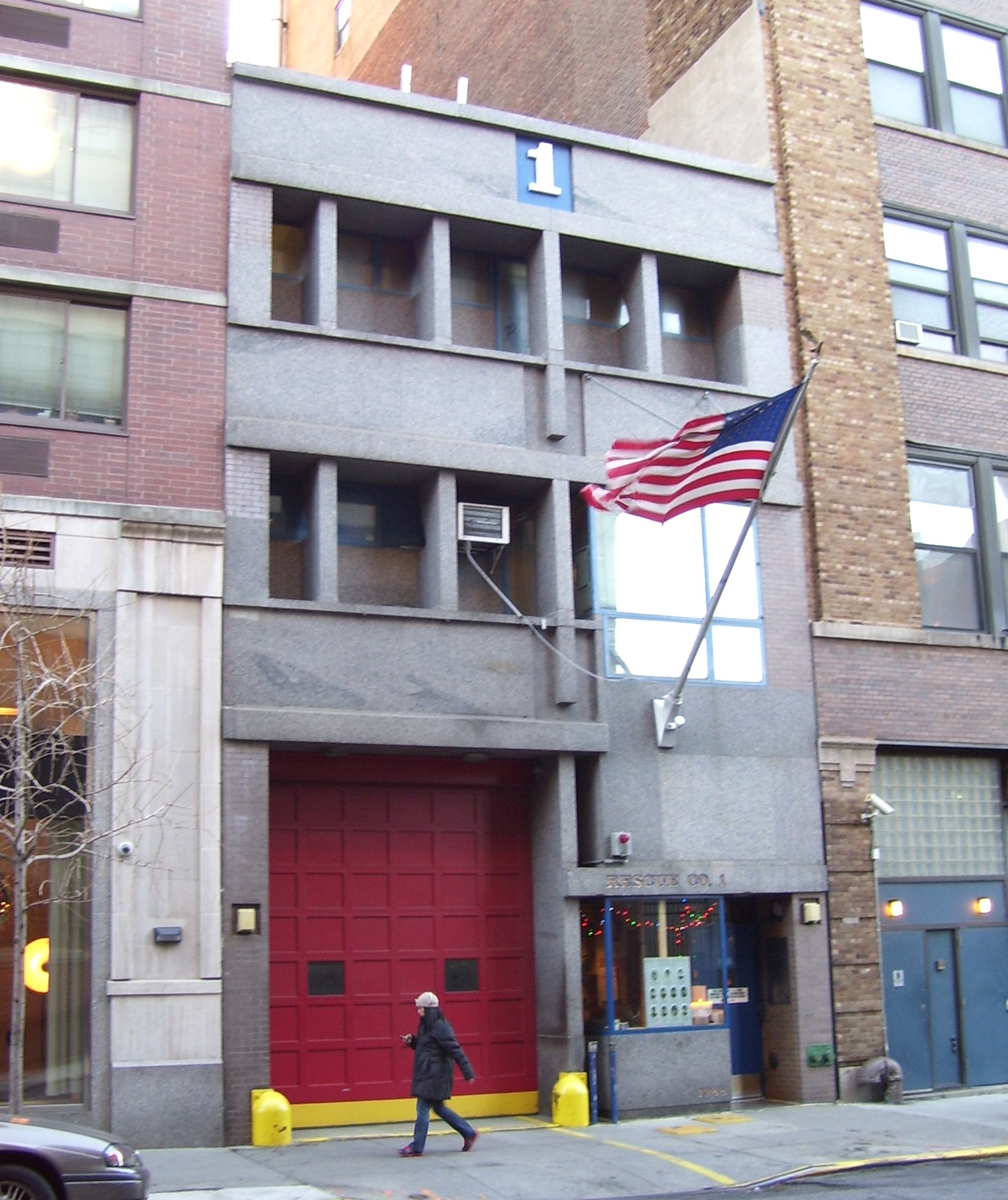 Rescue Company 1 of the Fire Department of New York City, at 530 West 43rd Street between 10th and 11th Avenues in the Hell's Kitchen neighborhood of Manhattan, New York City. Built in 1988, designed by the Stein Partnership, to replace a firehouse that burned down. {Source: AIA Guide to NYC (4th ed.))